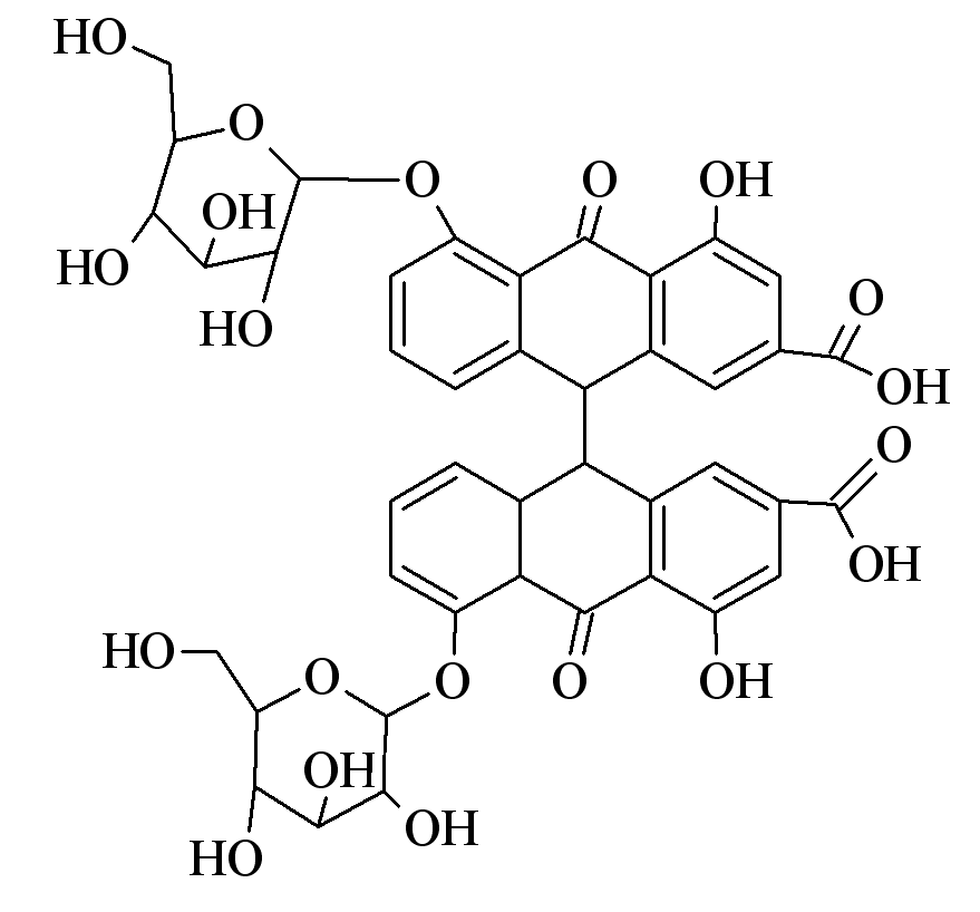 chemical structure of sennoside A, B